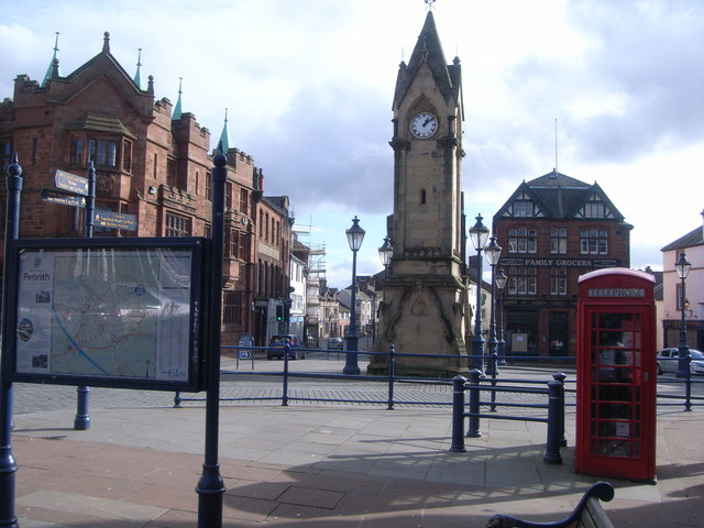 The Market Square at Penrith, Cumbria, England.